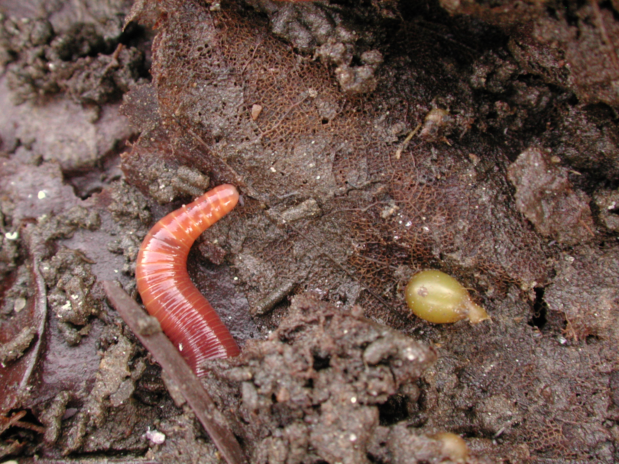 The head of an Eisenia fetida earthworm plus, on the right, a cocoon of this species, found between decomposing leafs in my garden. Diameter of cocoon: ~3 mm.